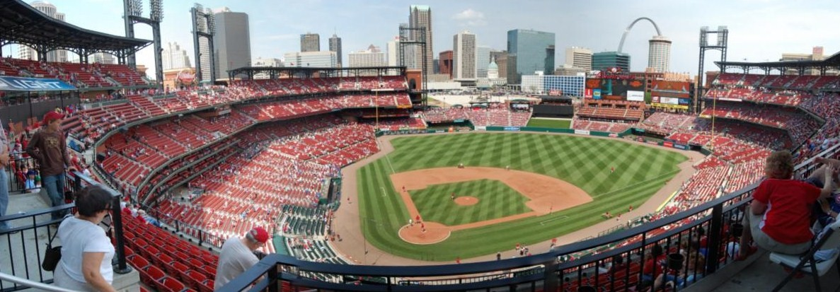 Panorama of Busch Stadium in St. Louis, MO